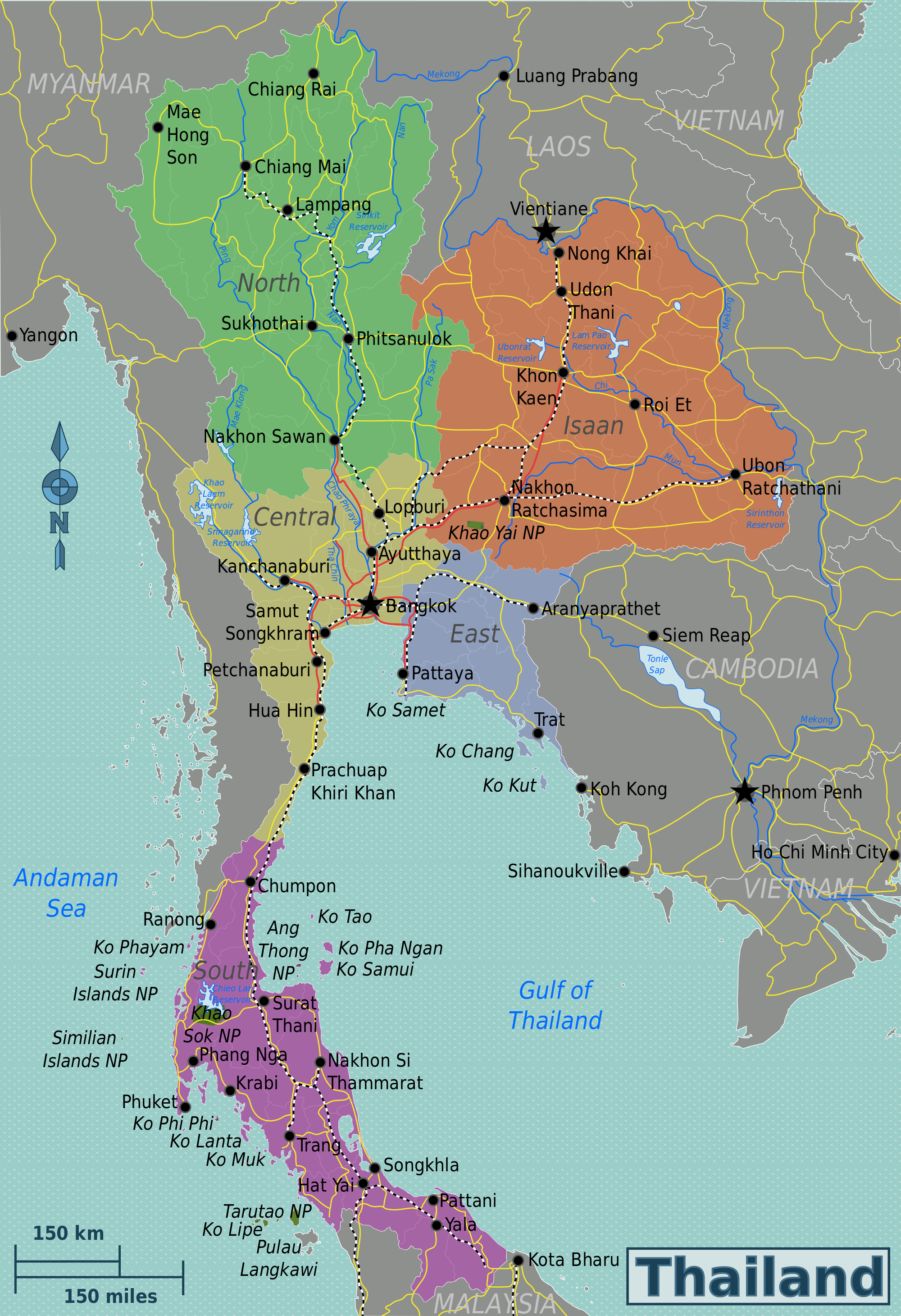 Map of Thailand.